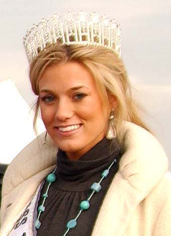 Cedric Quick, contractor, stands next to Tech. Sgt. Warren Hiller, 459th Aircraft Maintenance Squadron, Lt. Col. David Post, 459th Maintenance Group, Col. Stayce D. Harris, 459th Air Refueling Wing commander, and Casandra Tressler, Miss Maryland USA 2008. Team Andrews members of the 459th Air Refueling Wing and the 79th Medical Wing were among nearly 9,000 people who hopped into the Chesapeake Bay during the Maryland State Police Polar Bear Plunge at Sandy Point Park to raise money for Special Olympics Maryland.